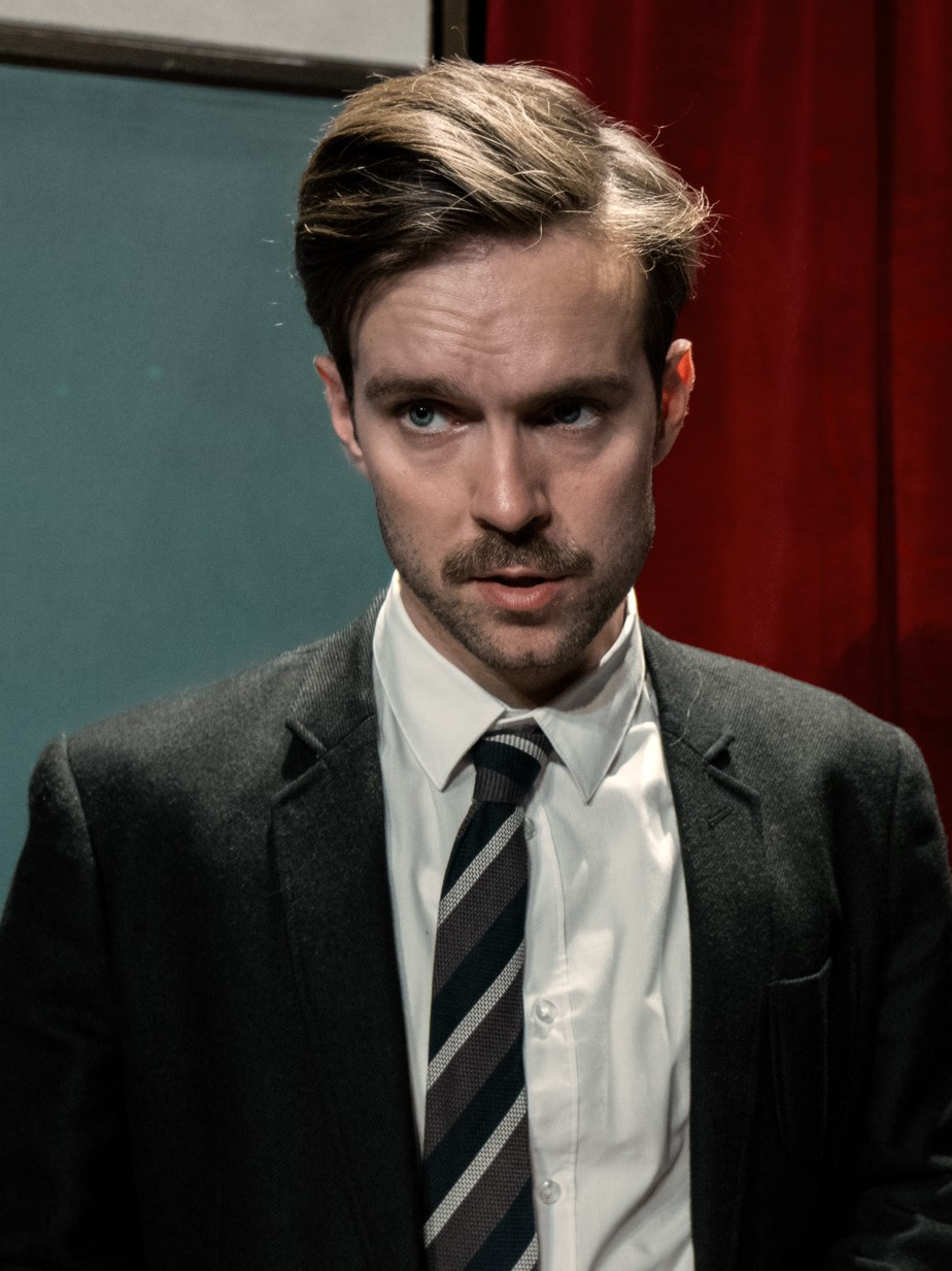 Jens Frederik Sætter-Lassen in the Copenhagen theater Folketeatret's production of the play "Lille mand hvad nu?" (Kleiner Mann – was nun?) bases on the novel by Hans Fallada.